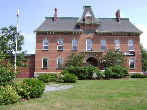 The Kings County court house at the center of Hampton